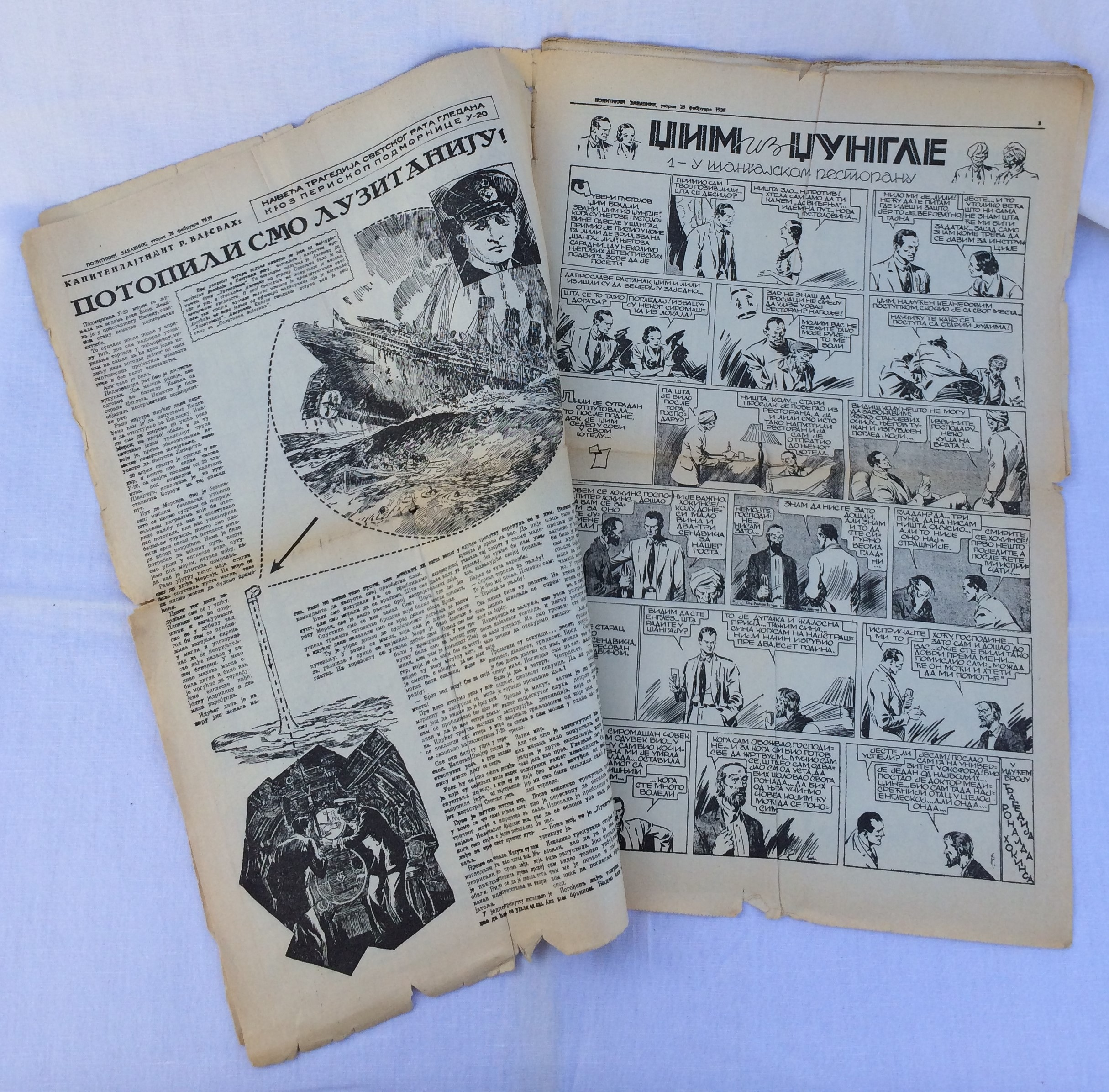 First edition of "Politikin zabavnik" from 1939. It can be found in the Society for Culture, Art and International Cooperation Adligat in Belgrade, Serbia. Српски (ћирилица): Прво издање "Политикиног забавника" из 1939. године. Налази се у Удружењу за уметност, културу и међународну сарадњу „Адлигат” у Београду.